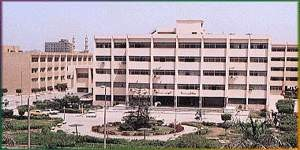 Faculty of Engineering -Zagazig University